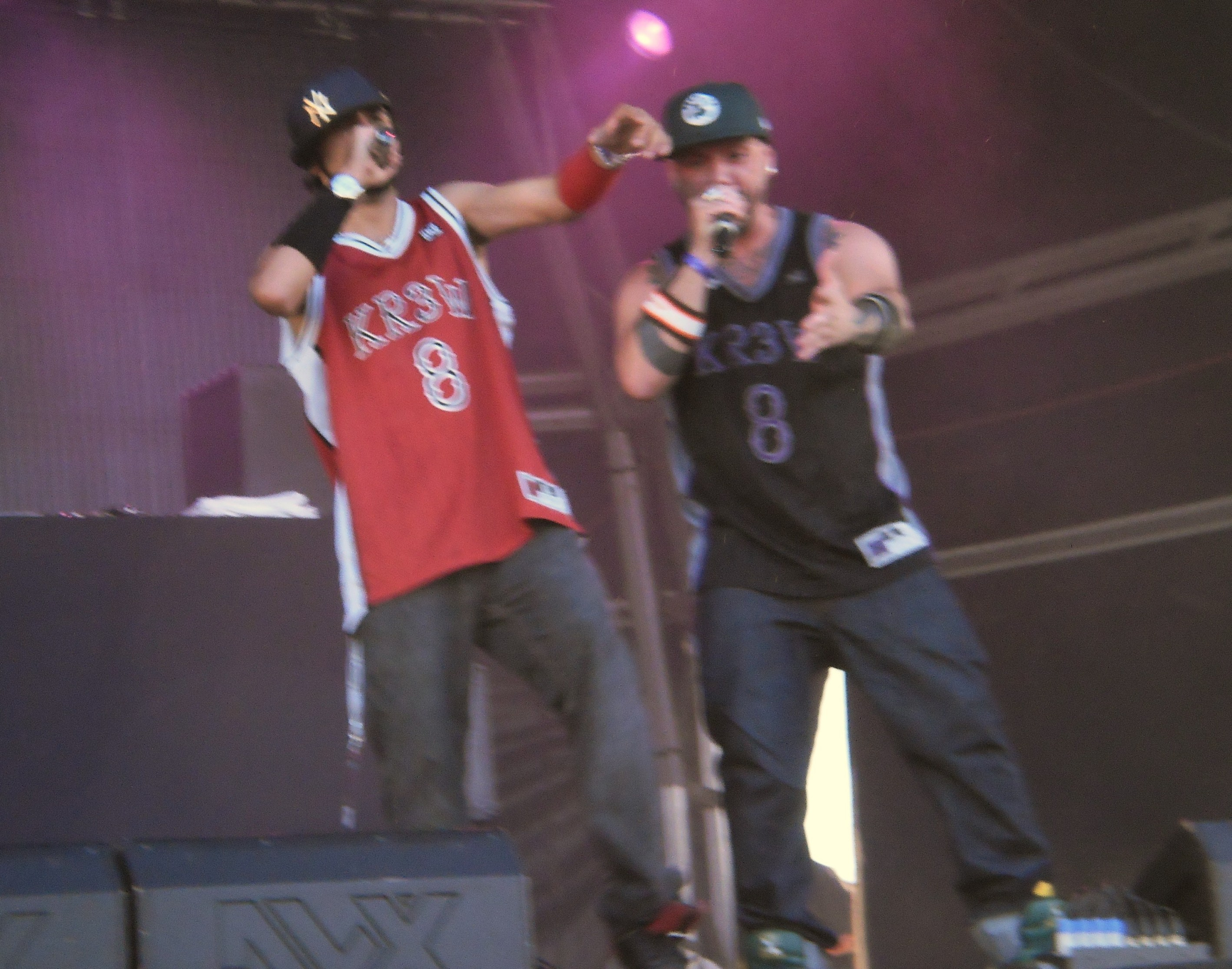 Duo Kie is a Spanish rap group from Madrid. The group comprises Locus and Nerviozzo.